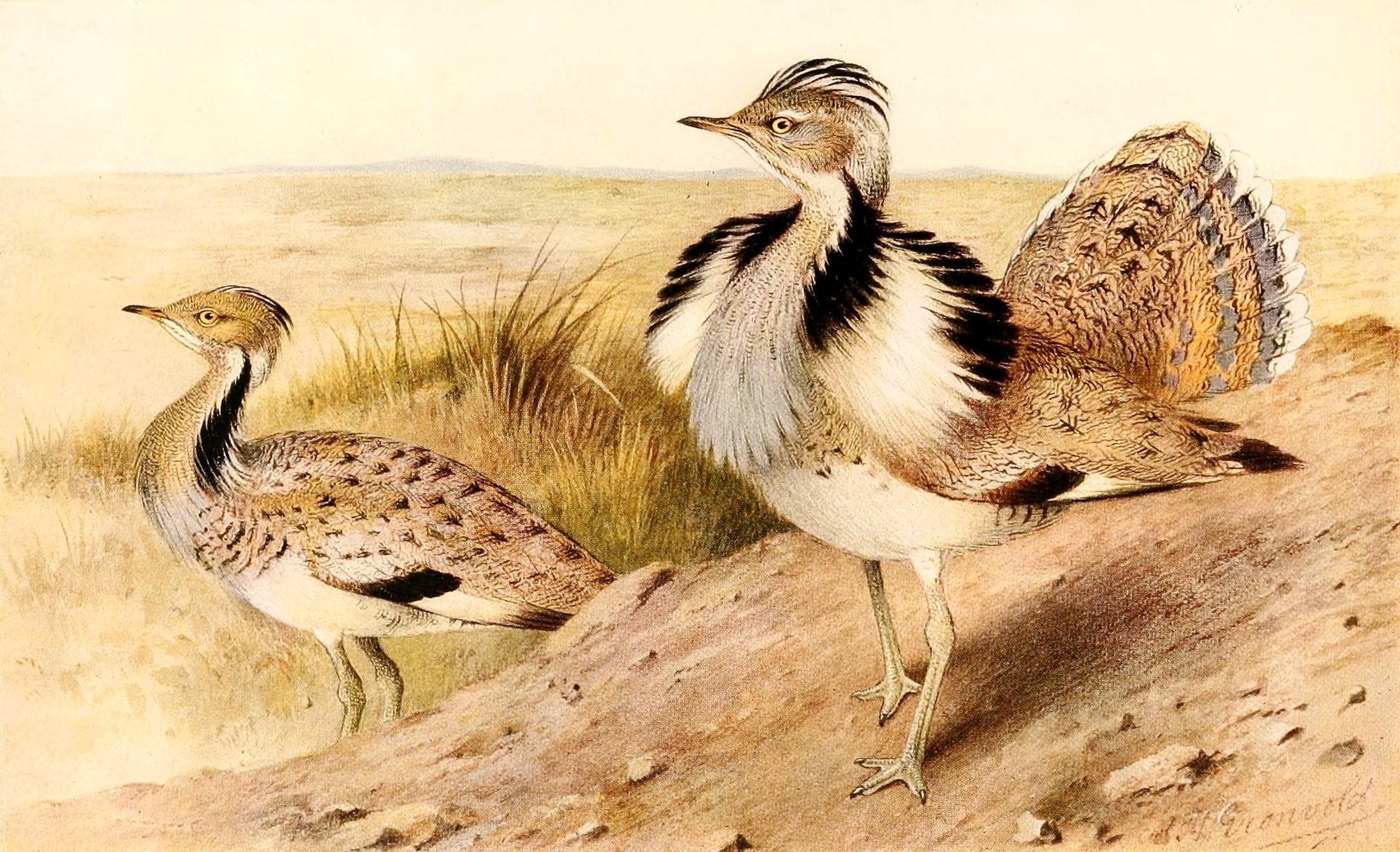 MacQueen's Bustard or Houbara Chlamidotis undulata macqueeni = Chlamydotis macqueenii (MacQueen's Bustard)